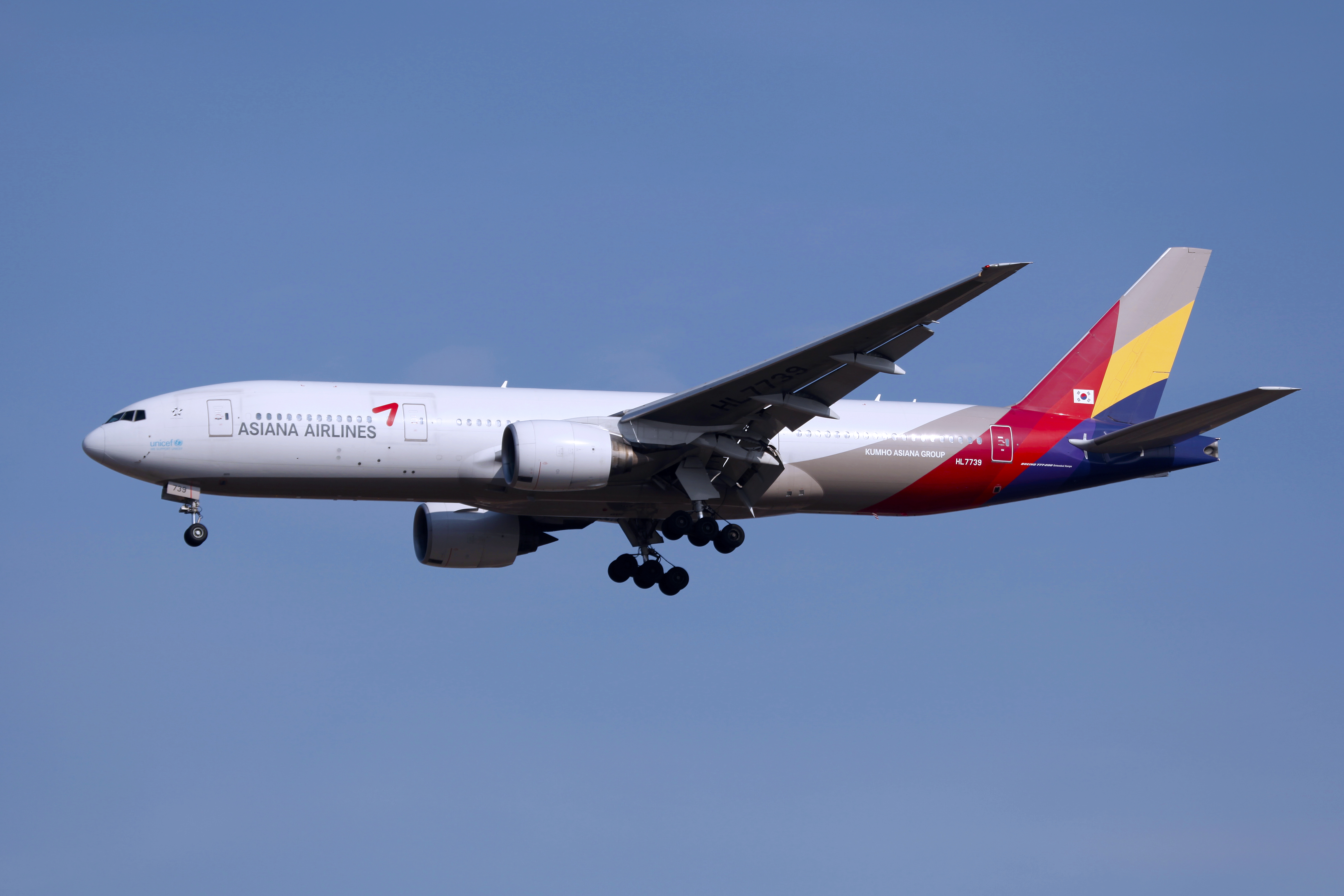 Boeing 777-28E(ER) of Asiana Airlines at Seoul Incheon International Airport.